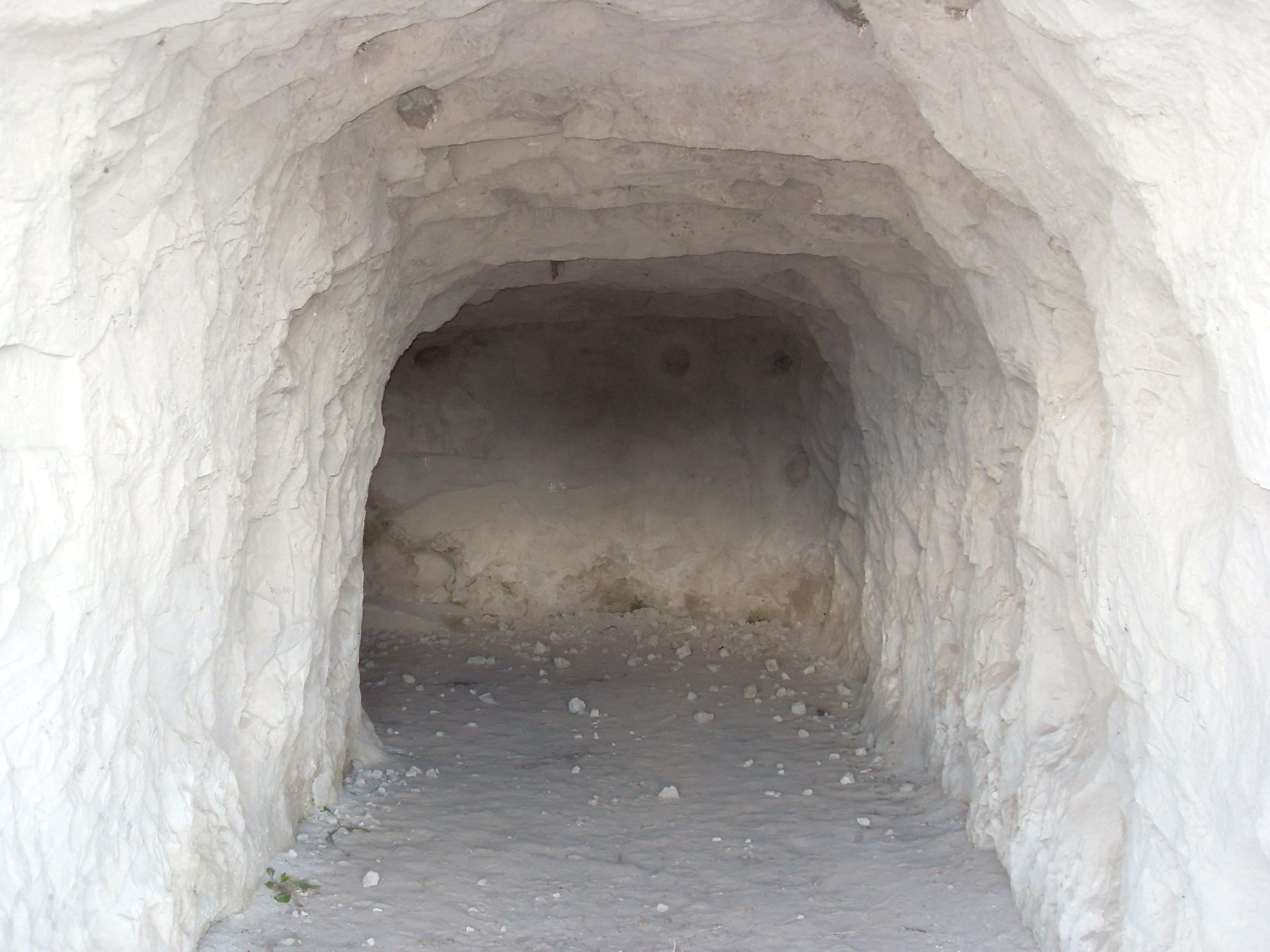 Cave at the food of Register Cliff, build by farmers to store potatoes during winter times